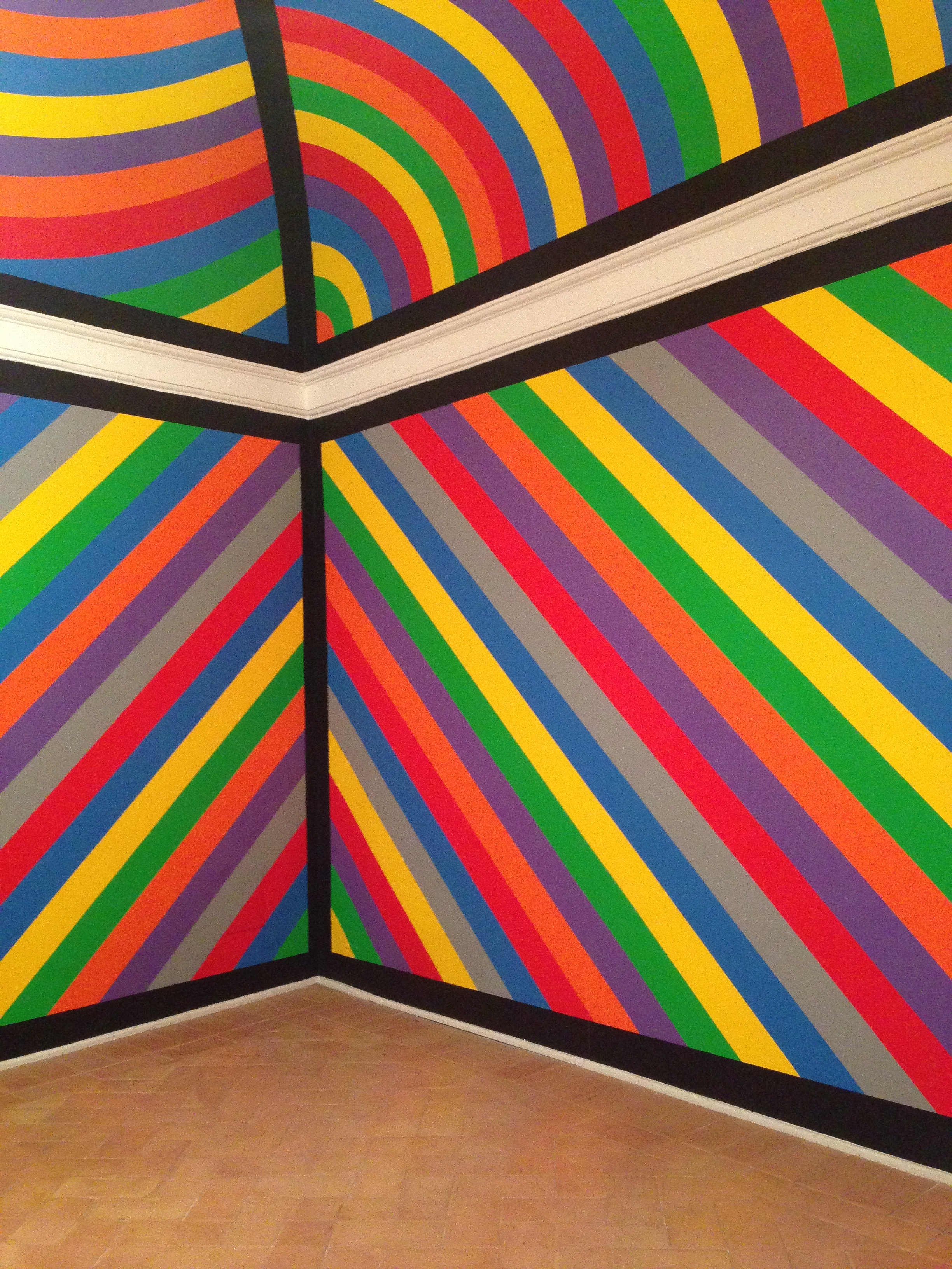 Wall drawing Sol LeWitt. Spoleto